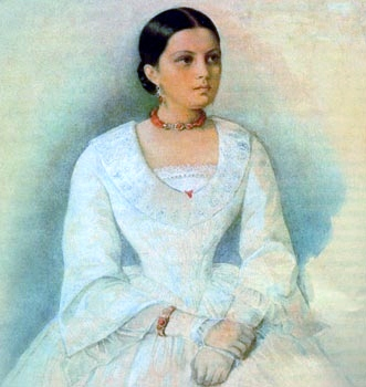 Avdotya Yakovlevna Panaeva